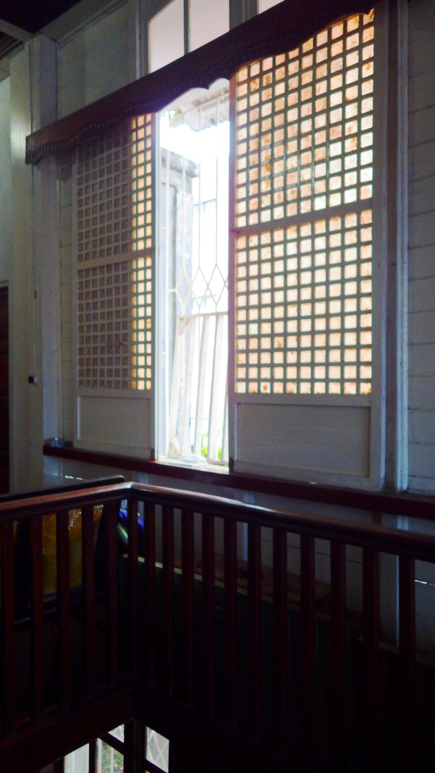 Interior/ capiz windows